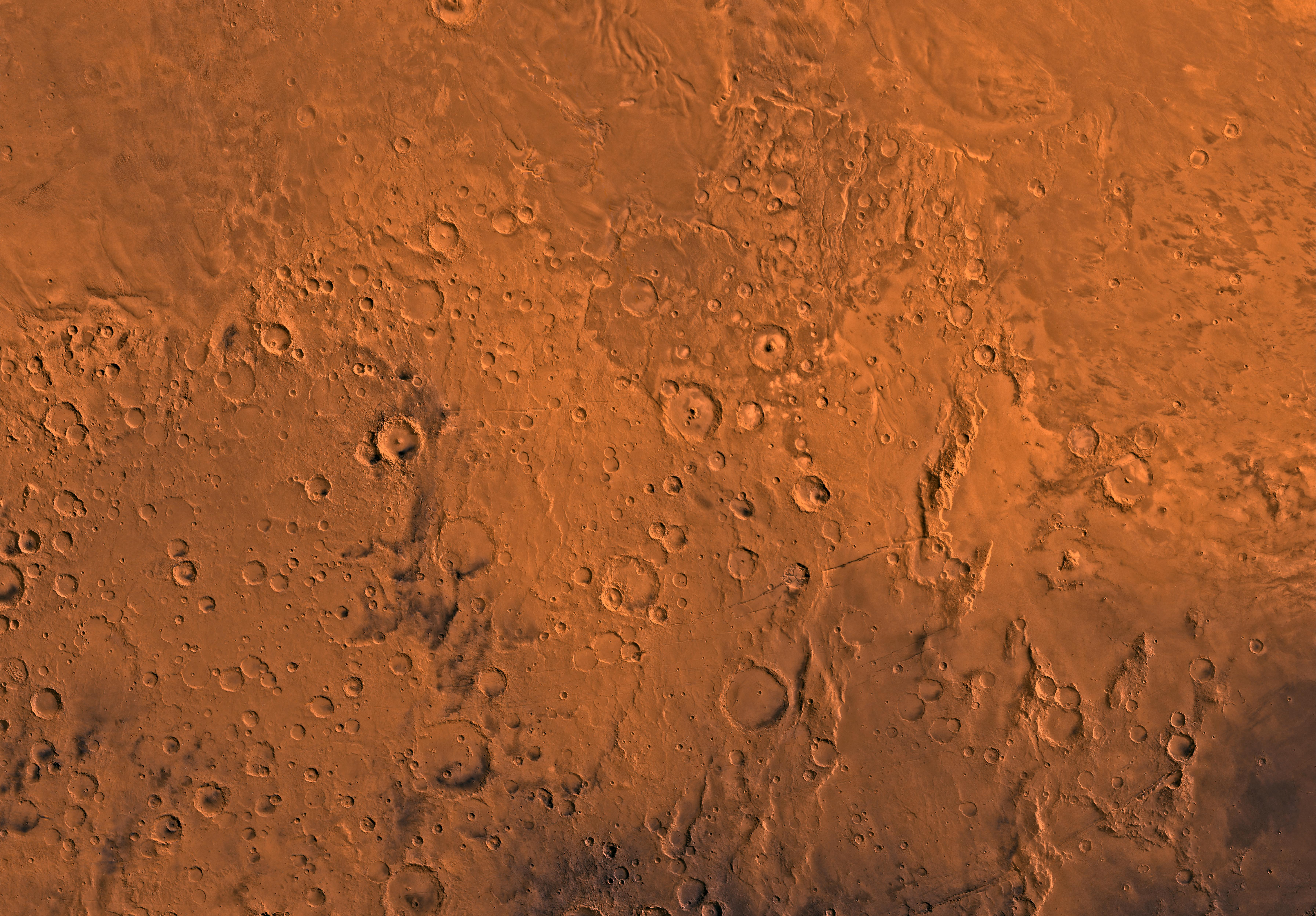 PIA00176: MC-16 Memnonia Region Mars digital-image mosaic merged with color of the MC-16 quadrangle, Memnonia region of Mars. Heavily cratered highlands in the southern two-thirds are cut in the northeastern part by a large outflow channel, Mangala Vallis. The highlands are bounded to the north by undulating wind-eroded deposits and to the east by lava flows of the Tharsis region. Latitude range -30 to 0 degrees, longitude range 135 to 180 degrees.